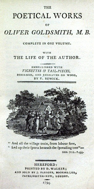 Title page of The Poetical Works of Oliver Goldsmith, M.B. complete in one volume. With the life of the author. Embellished with Vignettes & Tail-Pieces, designed, and engraved on wood, by T. Bewick. The page contains a vignette of young village men and women dancing in a circle in a rustic setting much like Bewick's home, over a couplet from The Deserted Village: "And all the village train, from labour free," "Led up their sports beneath the spreading tree" Hereford: printed by D. Walker; and sold by J. Parsons, Bookseller, Paternoster-Row, London. 1794.